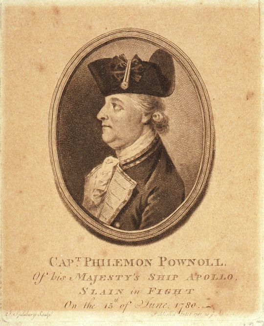 Memorial engraving entitled 'Capt Phileman Pownoll of his Majesty's Ship Apollo slain in Fight On the 15th of June 1780'